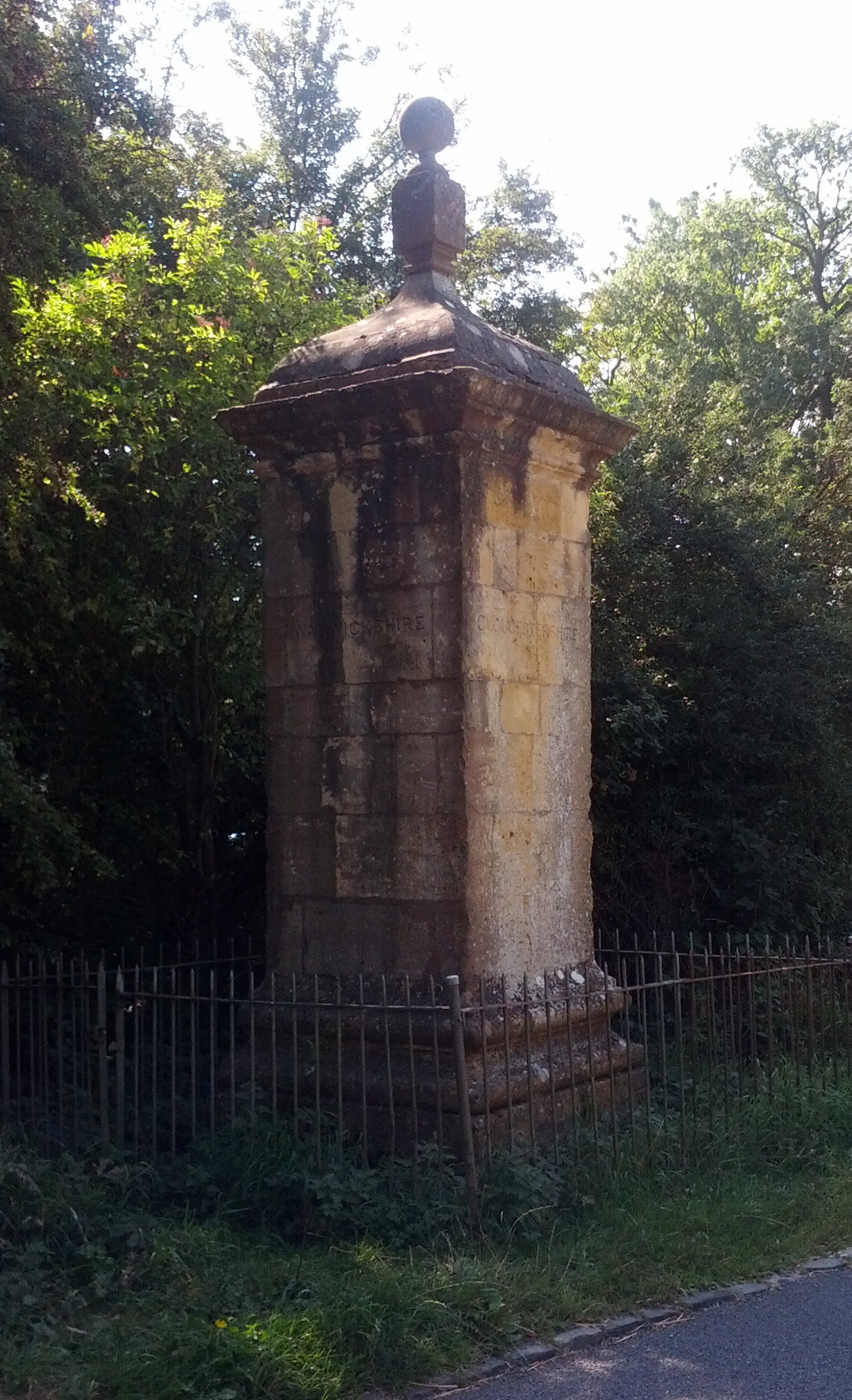 Photograph of the four-shire stone, at the meeting-point of Gloucestershire, Warwickshire, Oxfordshire, and formerly Worcestershire, in England. Taken on September 6th, 2013.